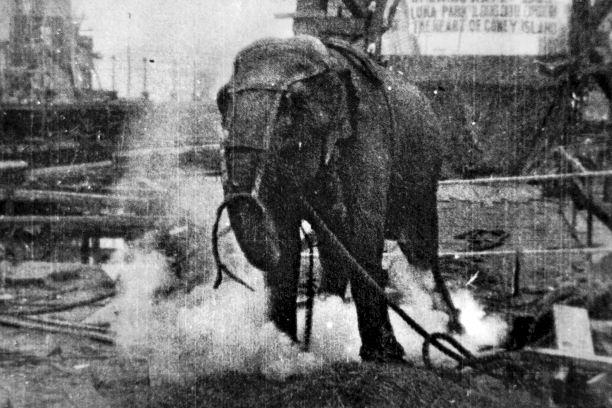 A frame from the 1903 74 second short documentary film Electrocuting an Elephant produced by Edwin S. Porter or Jacob Blair Smith for the Edison Manufacturing Company. On January 4, 1903 Topsy the elephant was electrocuted by the owners of the Coney Island amusement park "Luna Park" in an event to raise publicity about the opening of the new park (at this point still under construction). The film captured the point when 6600 volts of electricity was turned on. Behind Topsy is the unfinished "Electric Tower" with a sign advertising "OPENING MAY 2ND 1903 LUNA PARK $1,000,000 EXPOSITION, THE HEART OF CONEY ISLAND".